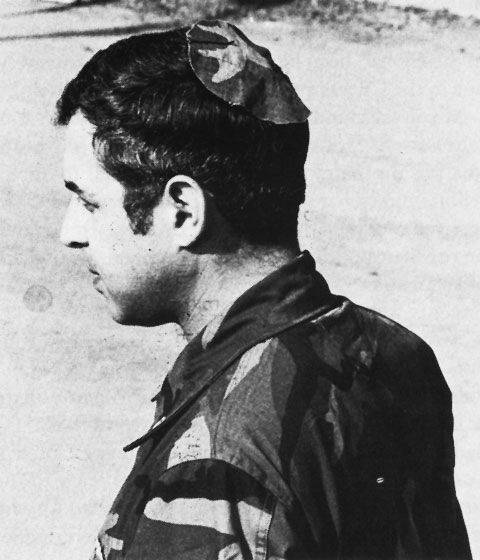 Photo of Rabbi (U.S.Navy Chaplain) Arnold E. Resnicoff at the scene of the October 23, 1983, Beirut barracks bombing, Beirut, Lebanon.